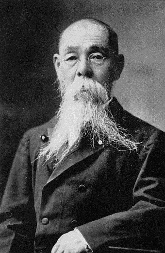 Shigetomo Ohara